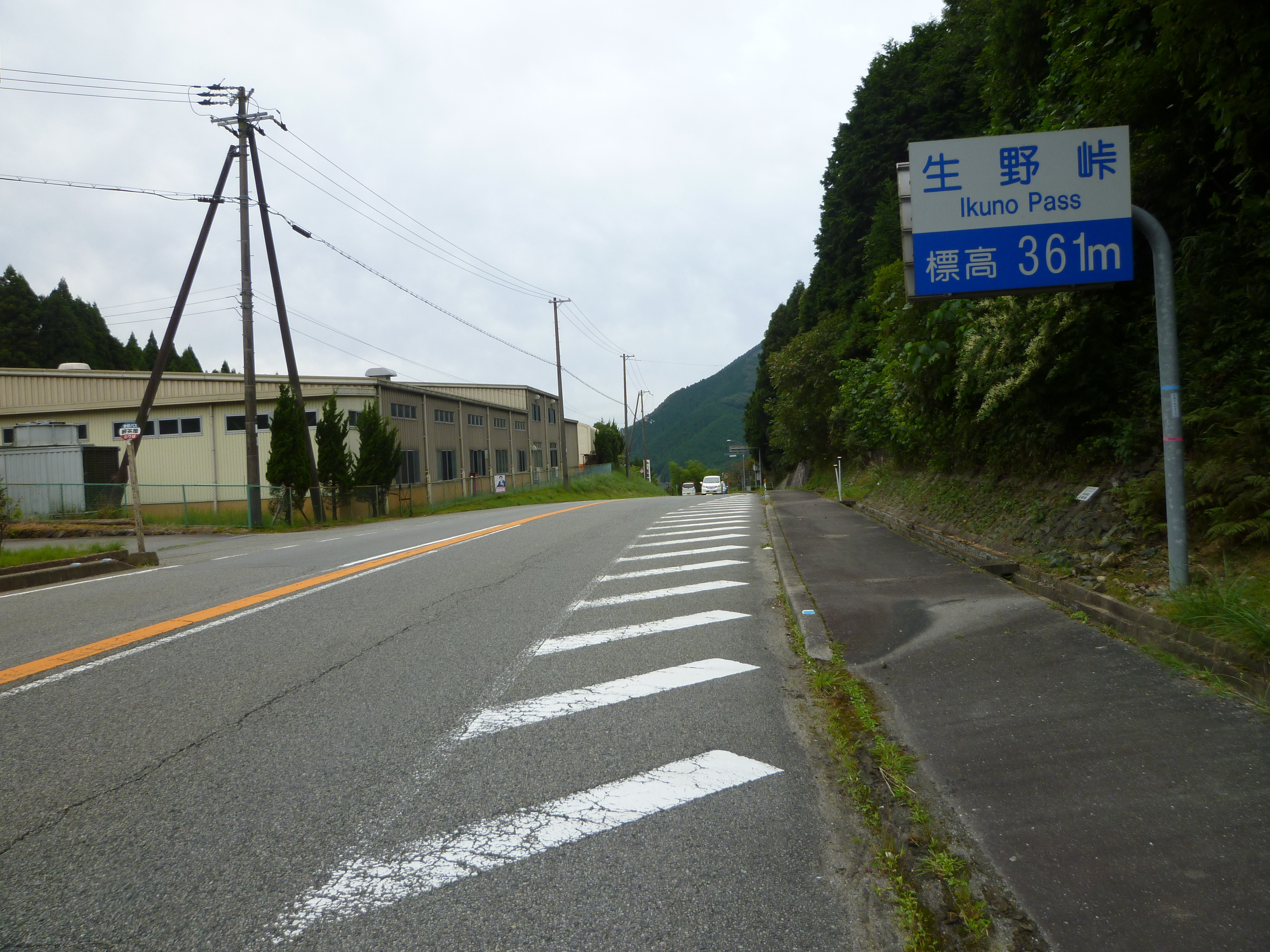 Ikuno Pass on Japanese national route 312, from Asago Hyogo toward Kamikawa Hyogo.